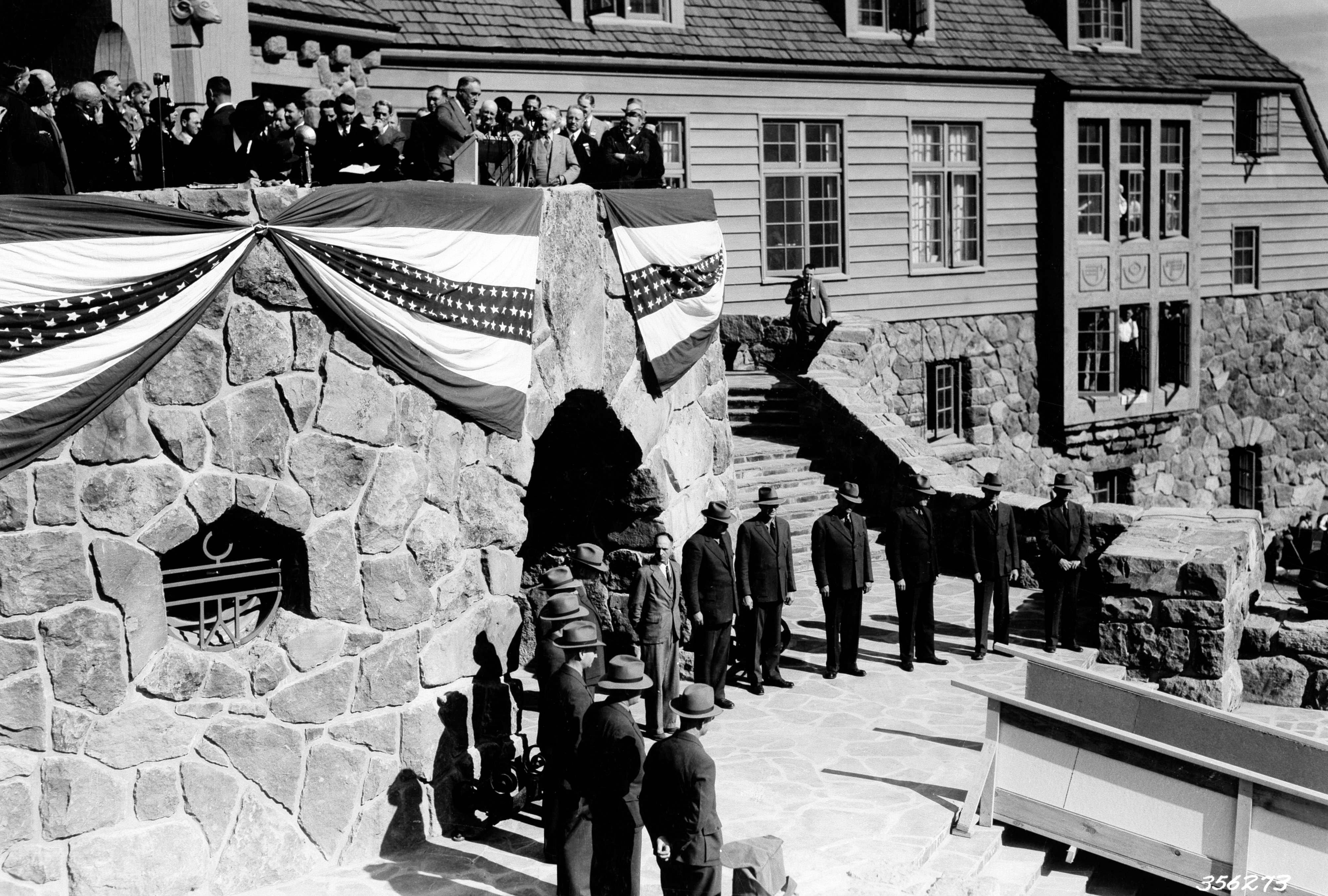 President Franklin D. Roosevelt at the podium, dedicating Timberline Lodge.